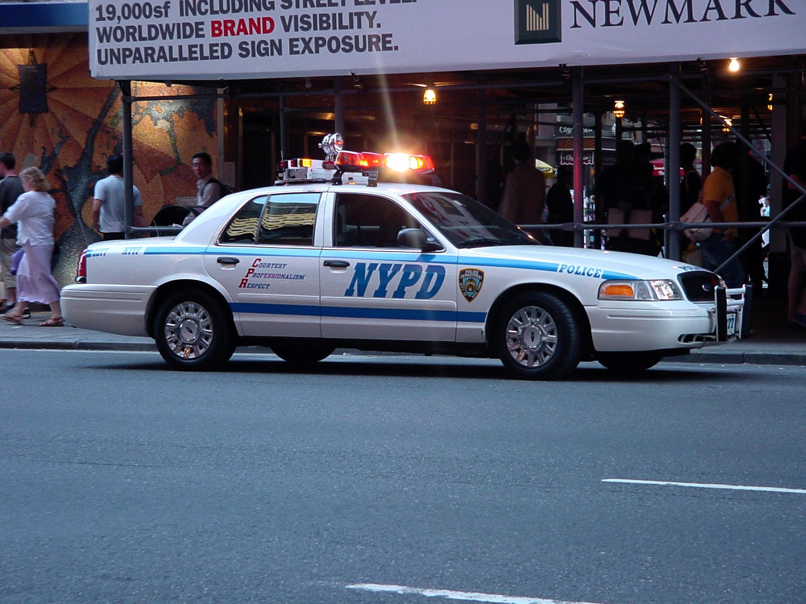 A NYPD car in Times Square